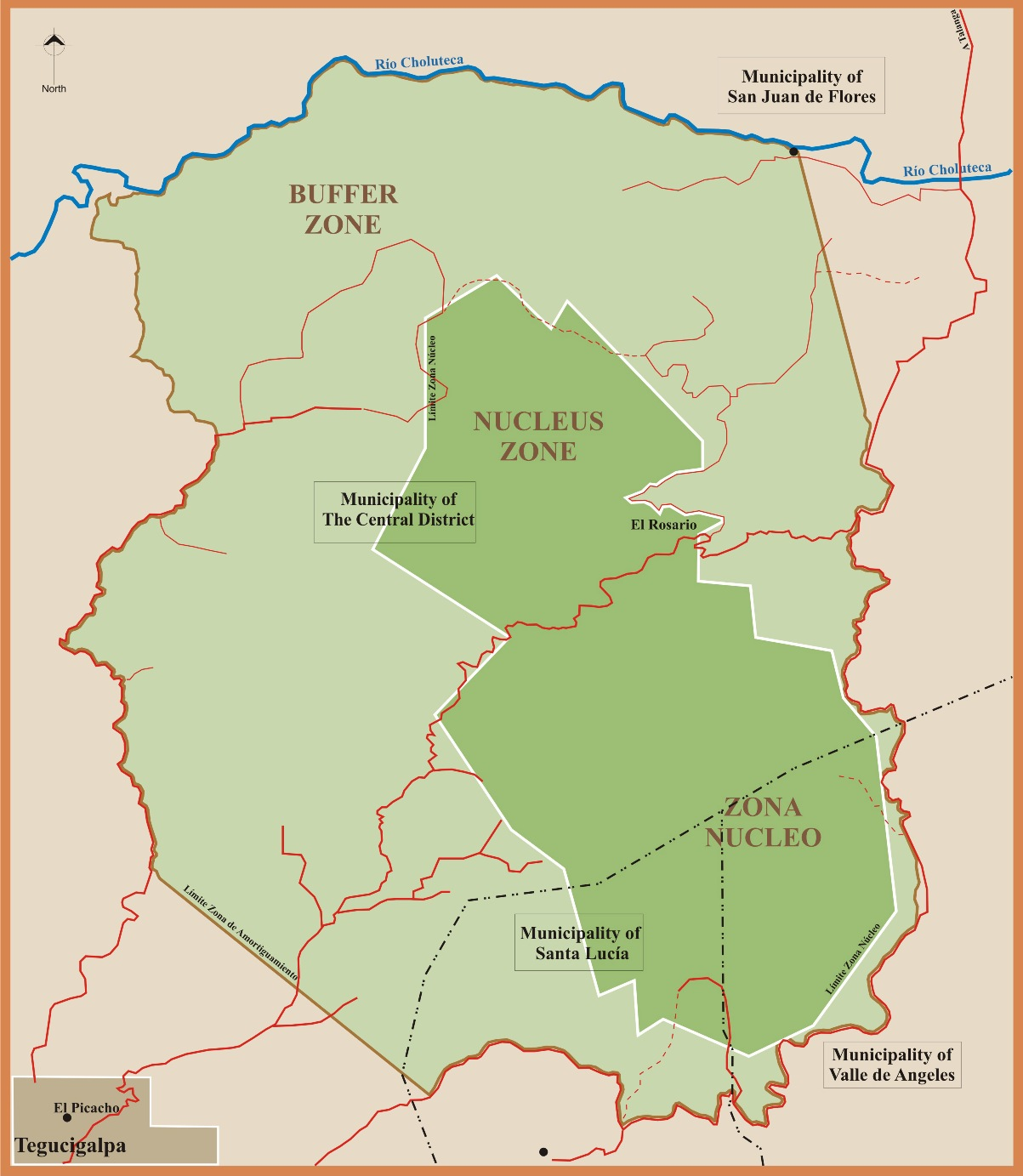 Map of La Tigra, its buffer and nucleus zone